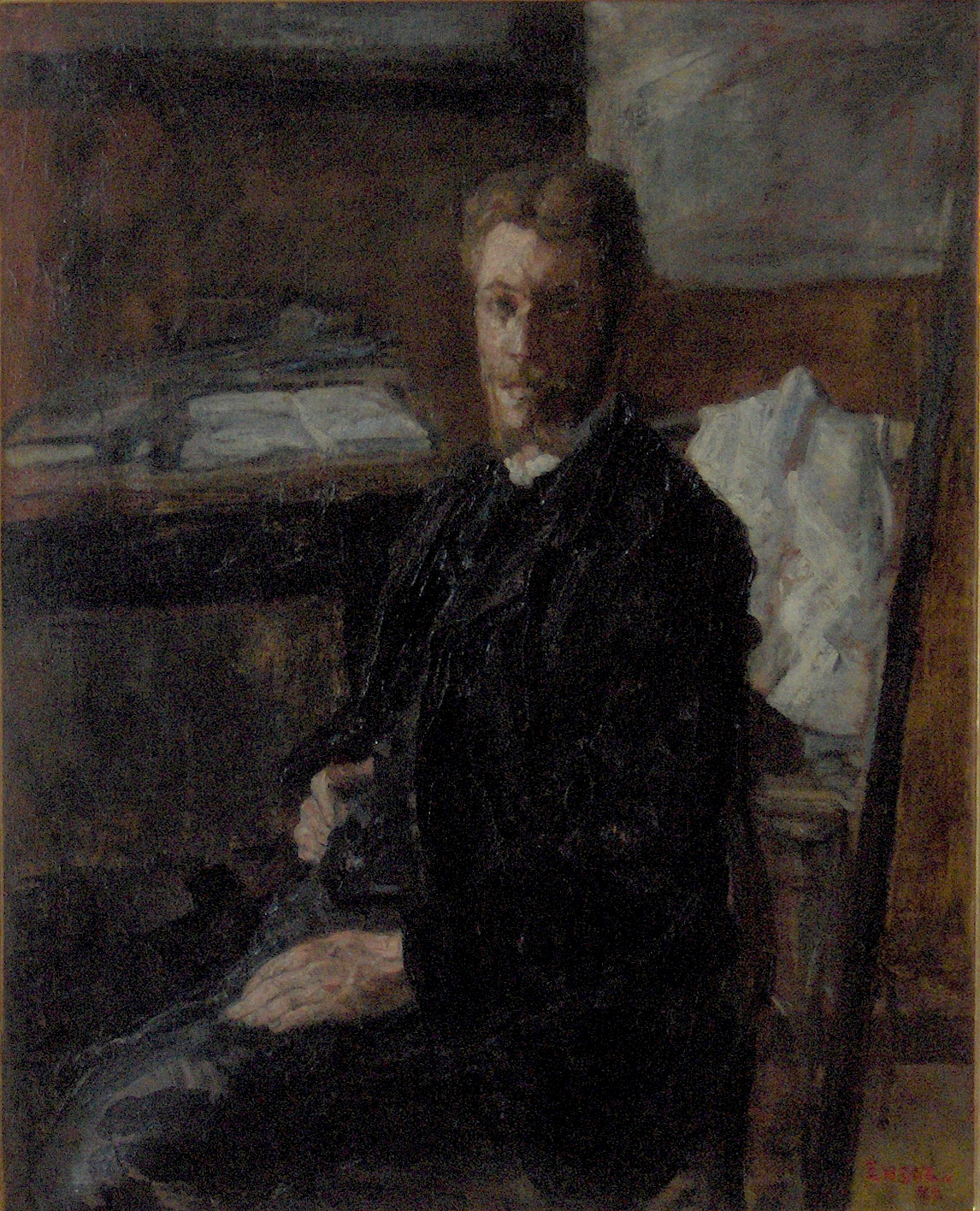 "Portrait of Willy Finch" (1882) by James Ensor; 95 x 110 cm; collection Kunstmuseum aan Zee, Ostend